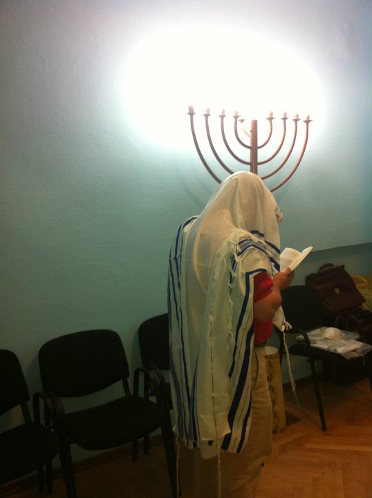 Rite in the Synagogue 3